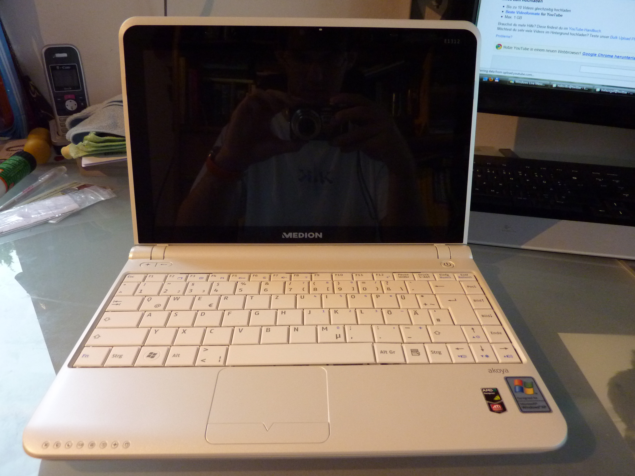 Medion Akoya Mini E1312 11.6" 1366×768 AMD Sempron 210U ATI Radeon Xpress 1250 1GiB DDR2 Ram, 160GB HDD